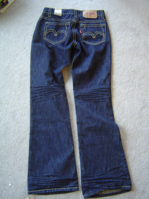 Pair of Levi's knockoff JKeep Jeans from retailer in Markham. User:fat_pig73